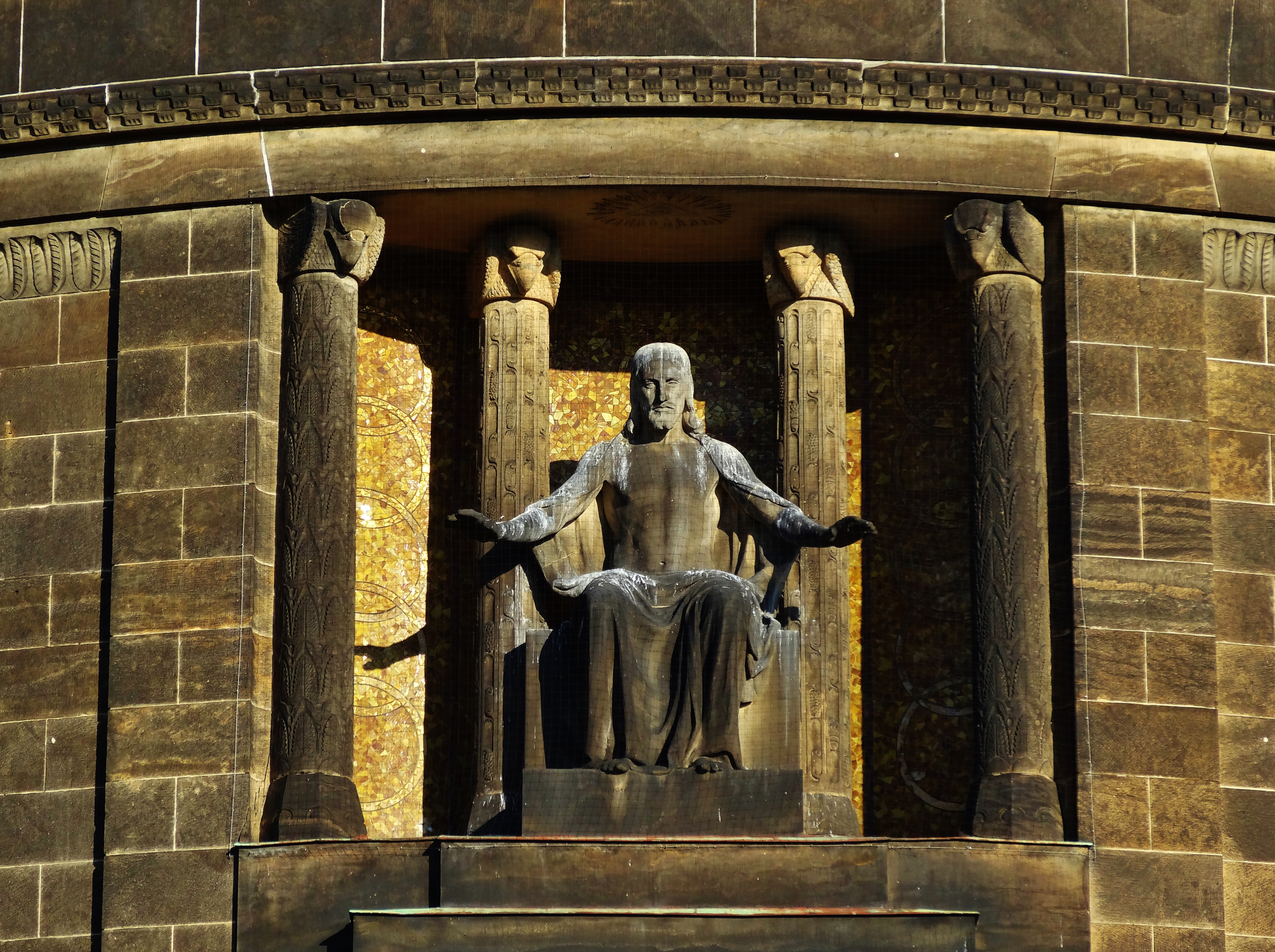 The christus church in Dresden Strehlen was built in eclecticism by hard working peoples with education. This image, which was originally posted to Panoramio, was reviewed on 1 September 2014 by the administrator or trusted user Leoboudv, who confirmed that it was available on Panoramio under the above license on that date. .